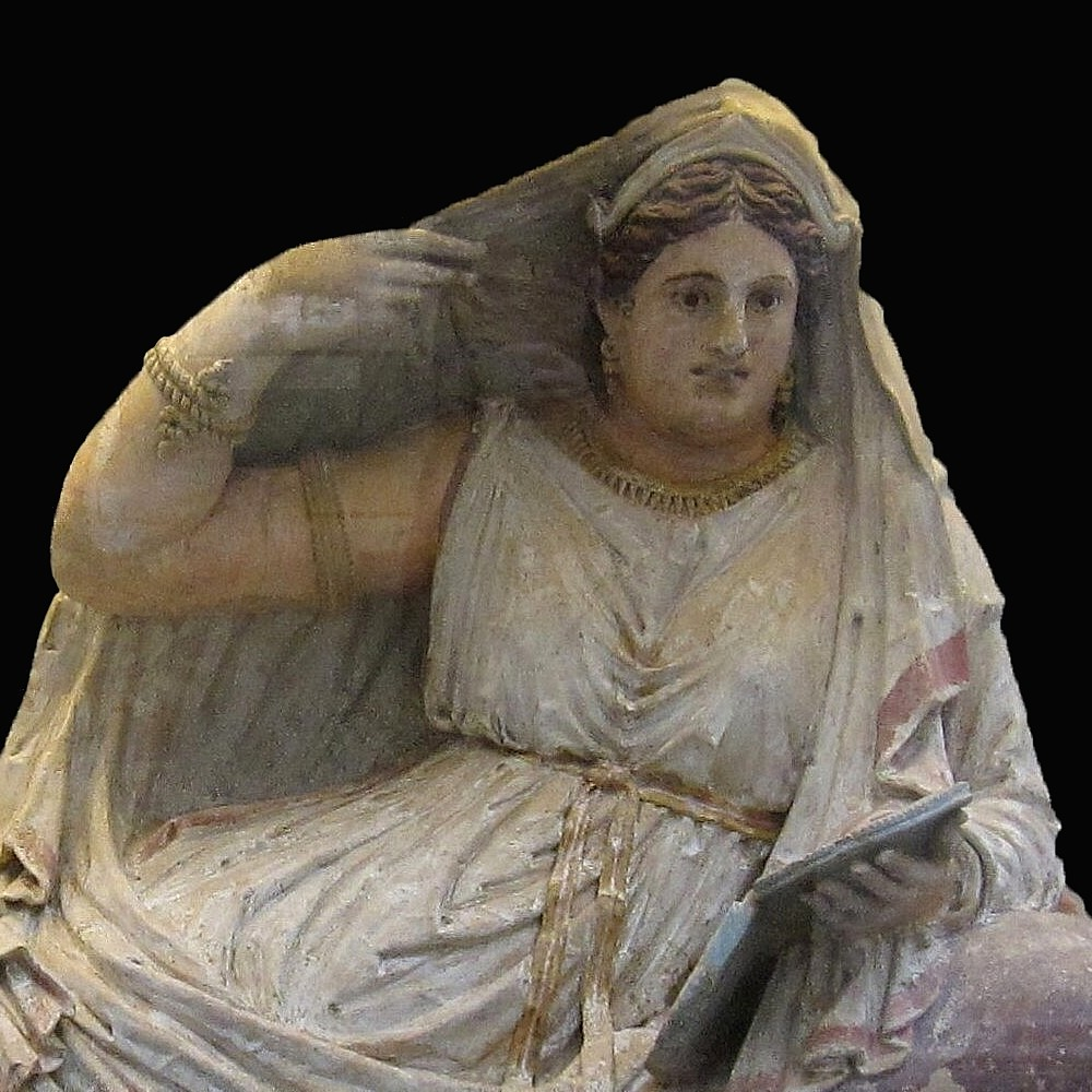 The dead woman, her name inscribed on the base of her chest, was clearly a well-to-do lady. She reclines upon a mattress and pillow, holding an open-lidded mirror in her left hand and raising her right hand to adjust her mantle. She wears a tunic (chiton) with high girdle and a bordered cloa, and her jewellery comprises a tiara, earrings, necklace, bracelets and finger-rings. The skeleton from the sarcophagus was found to belong to a woman who was about fifty years old at the time of her death.